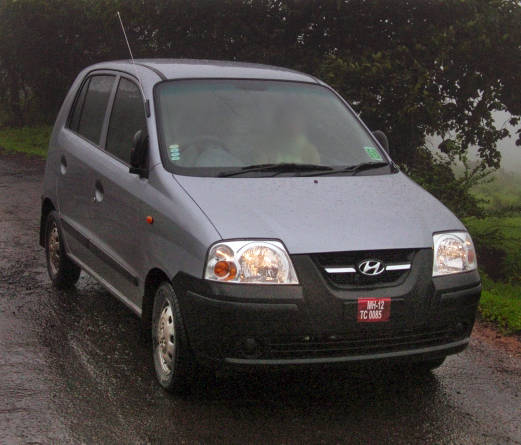 Indian market Hyundai Santro Xing, same as the facelifted version of the Hyundai Atos Prima.